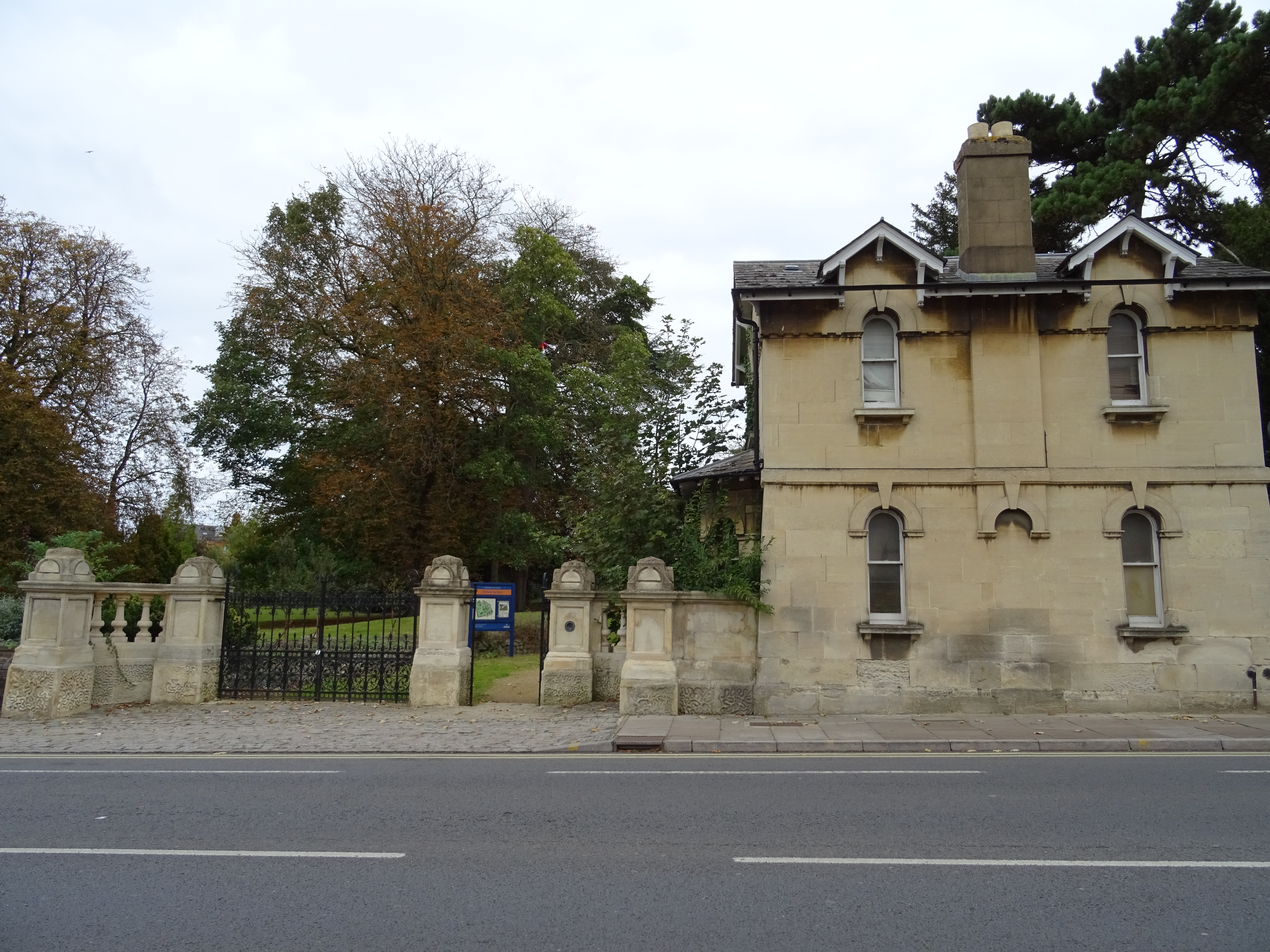 This is a photo of the entrance of Hillfield Gardens